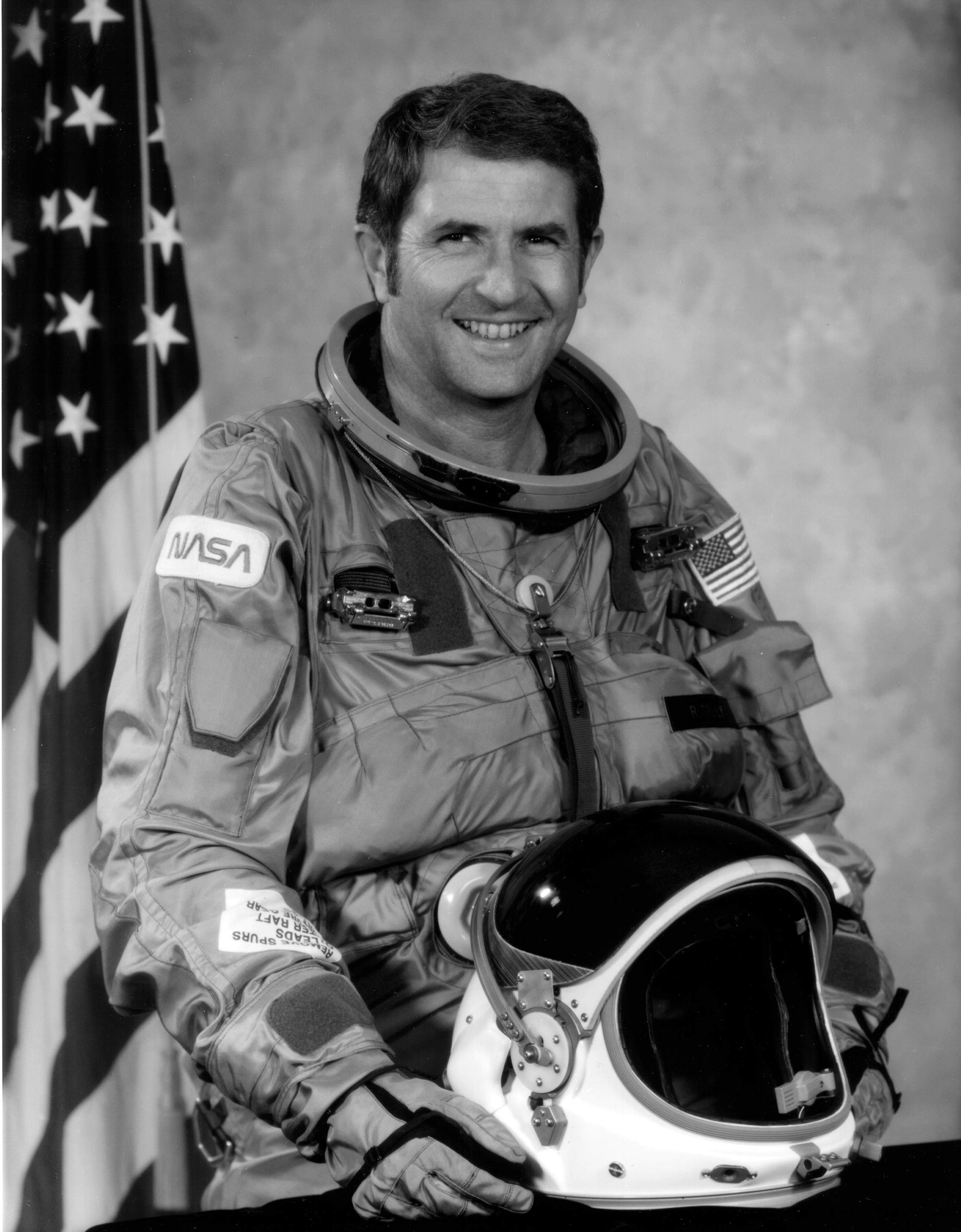 Astronaut Richard H. Truly, pilot of the Space Shuttle Columbia on mission STS-2 and Commander of Shuttle Challenger on mission STS-8, became NASA's eighth Administrator on July 1, 1989. One day earlier he concluded a 30 year Naval career retiring as a Vice Admiral. He was the first astronaut to head the nation's civilian space agency. Truly became Deputy Associate Administrator for Space Flight on February 20, 1986. In this position, he led the painstaking rebuilding of the Space Shuttle program less than one month after the Challenger disaster. This was highlighted by the much heralded "Return to Flight" on September 29, 1988 with the launch of Shuttle Discovery, 32 months after Challenger's final flight. On February 12th, 1992 Richard Truly resigned as NASA Administrator at the request of President George Bush.